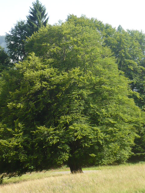 "El fagheron", a beech in Imèr, Italy, in early July.